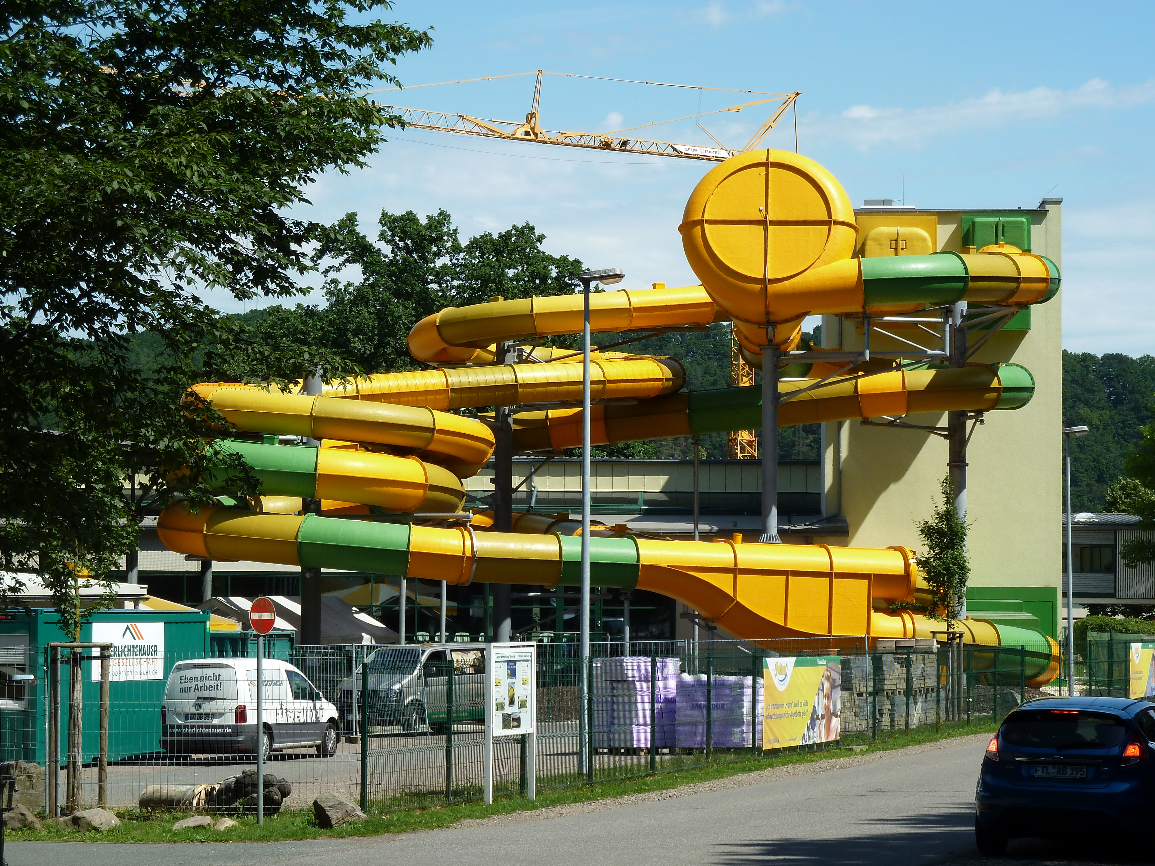 Water slide with two tubes: A twin tube, where two riders can compete against each other and a tire tube. The twin tube is 113 yd. long and 40.16 ft. tall. The average gradient is 11.9 percent. The tire tube is 141 yd. long and 40.16 ft. tall. The average gradient is 9.5 percent. Built in 2015 by Klarer, Hallau / Switzerland.